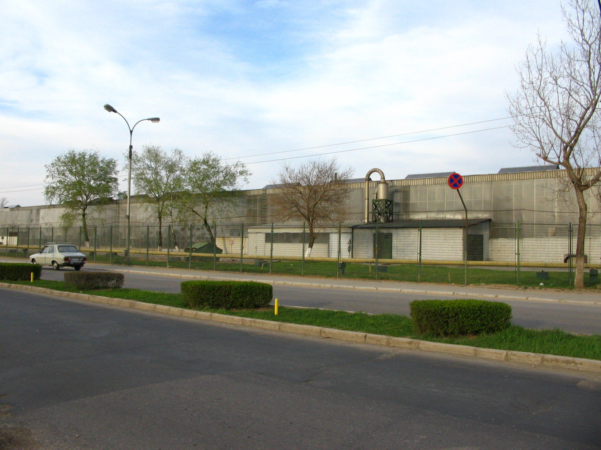 The Ductil factory, Buzău,Romania